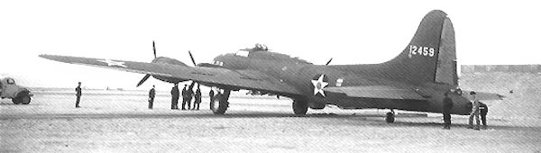 Boeing B-17E Fortress 41-2459, photographed at RAF Shallufa, Egypt in December 1941 on its way via Florida, Caribbean, Brazil, across the South Atlantic and Central Africa to join the 9th Bombardment Squadron, 7th Bombardment Group during the Battle of the Phillipines. When camouflage was adapted for bombers in February 1941, a star was added to each side of the fuselage and the rudder stripes and star on the low, loft and upper right wing were deleted. On 10 May 1942 the red centre of the star-in-circle insignia was also deleted because of its similarity With the Japanese 'hloomiau' or 'rising sun' marking. which Americans called the 'meatball'. Within two days of the B-17's arrival in the Dutch East Indies, on 15 January 1942, it was dispatched on a combat mission. This aircraft crash-landed during the mission at Kendari, Borneo and was strafed by Japanese Zero fighters. The crew escaped and were later evacuated to Java. The aircraft was subsquently blown up by the US forces on 16 January during the retreat. (USAAF Photo)